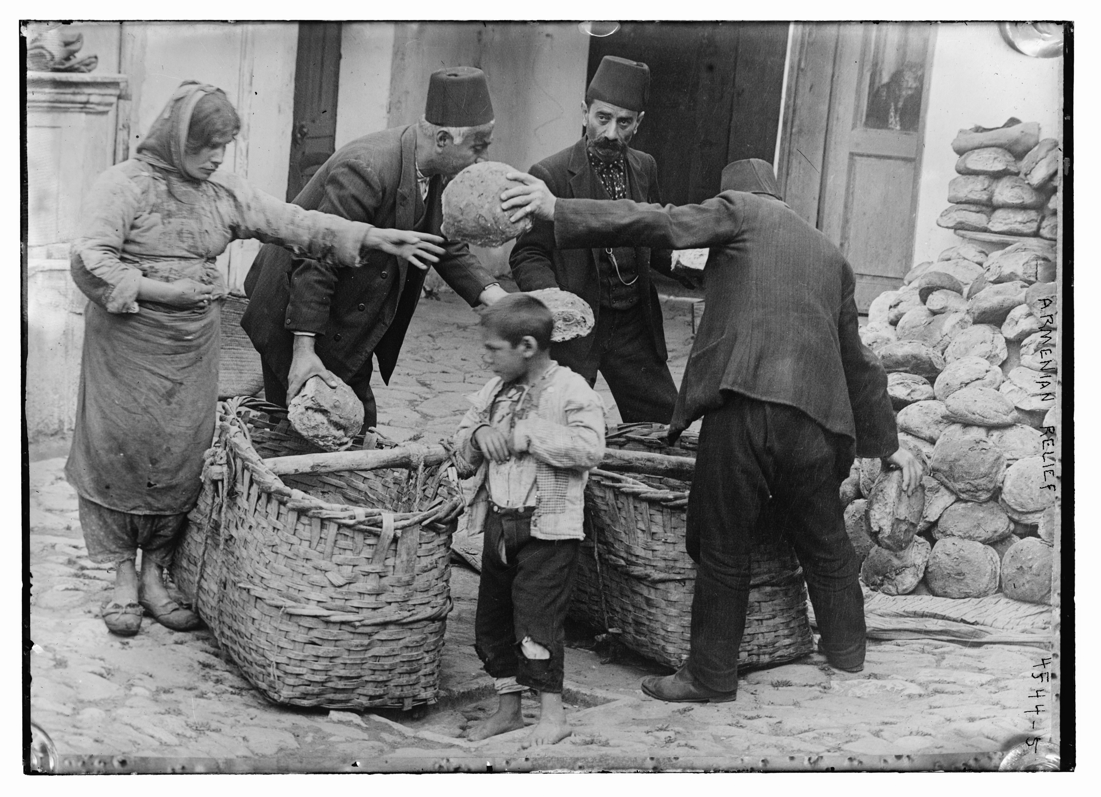 Armenian refugee woman and child getting food relief